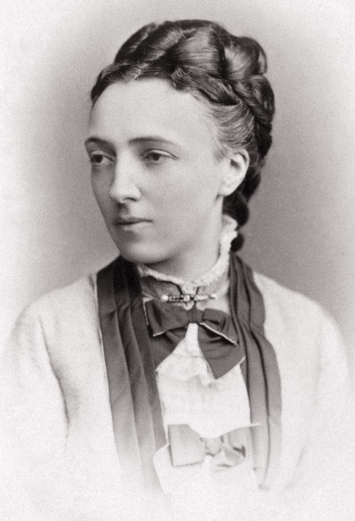 Grand Duchess Olga Feodorvna of Russia, born Cecile of Baden